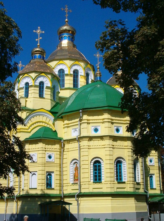 Old cathedral in Rivne